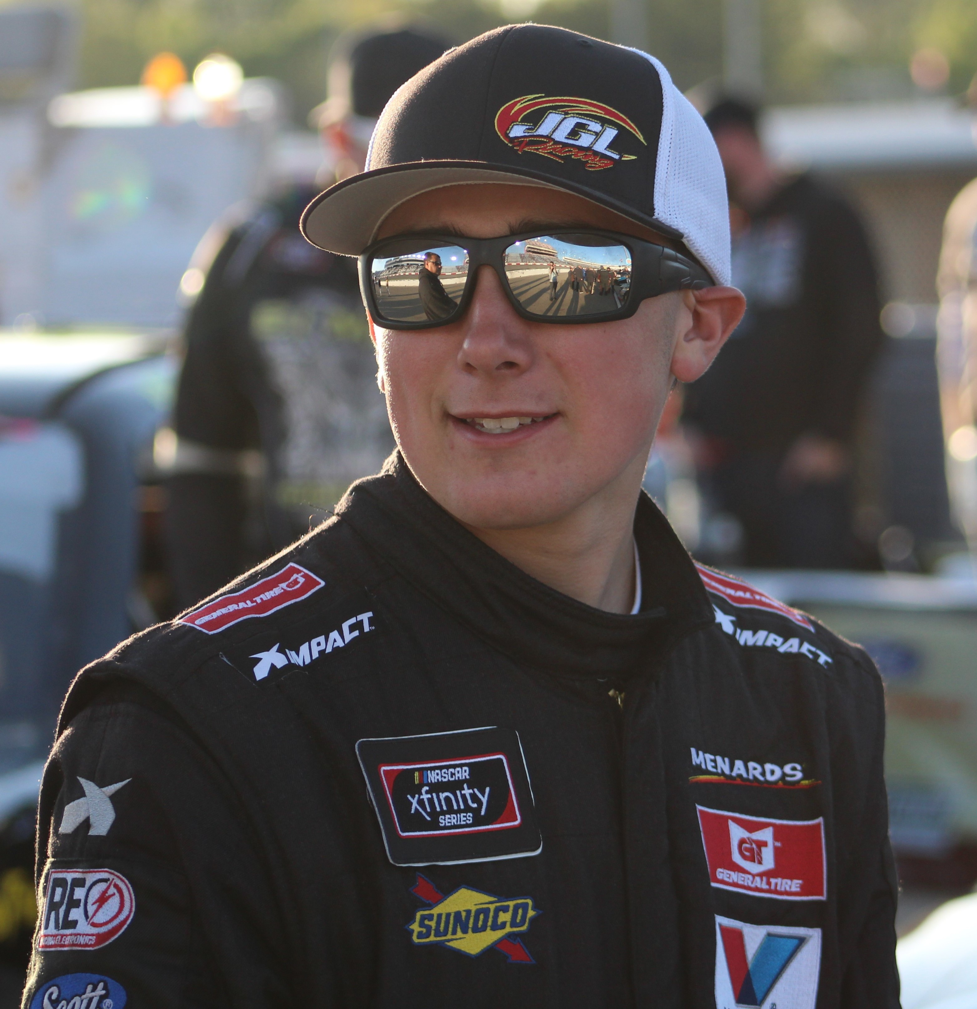 Tony Mrakovich at Richmond Raceway in 2018